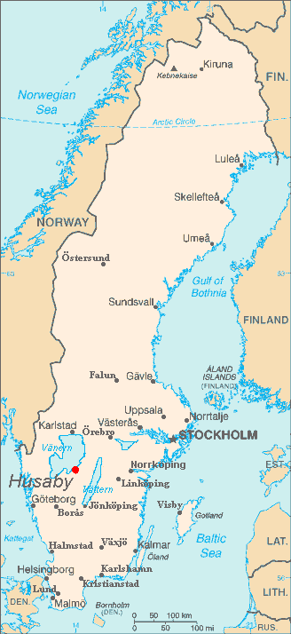 Date as of upload